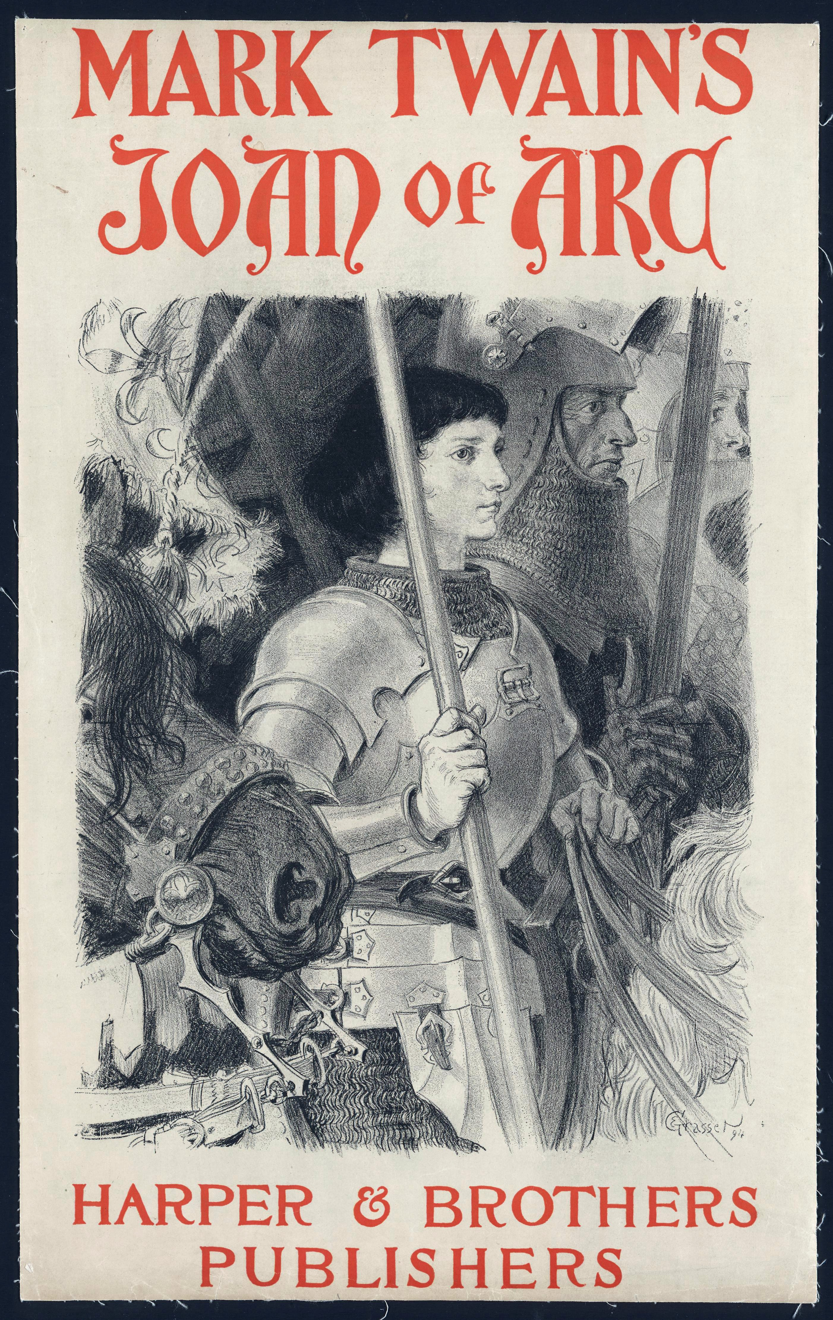 Mark Twain's Joan of Arc. Poster showing Joan of Arc in armor with a group of soldiers on horseback. Harper & Brothers Publishers, 1894.